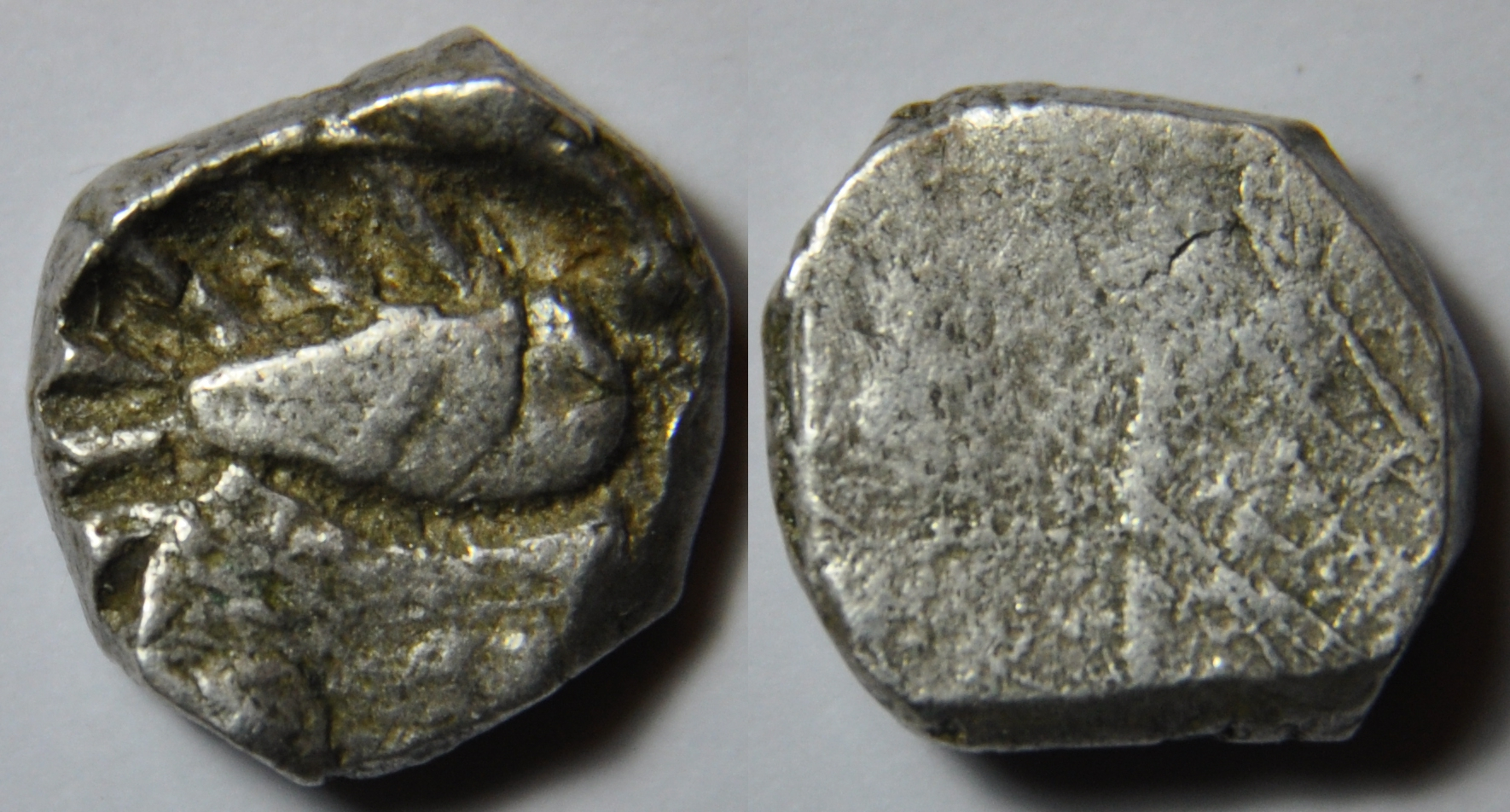 Une monnaie en argent de ½ karshapana du royaume d’Avanti aux environs de 400-312 avant J.C. A/ Poisson R/ vide Dimensions : 10 x 9,32 mm Poids : 1,7 g. Référence : Mitchiner ACW 4096-4100 Coins of rulers of India A silver coin of ½ karshapana from the kingdom of Avanti about 400-312 BC. A / Poisson R / empty Dimensions: 10 x 9.32 mm Weight: 1.7 g. Reference: Mitchiner ACW 4096-4100